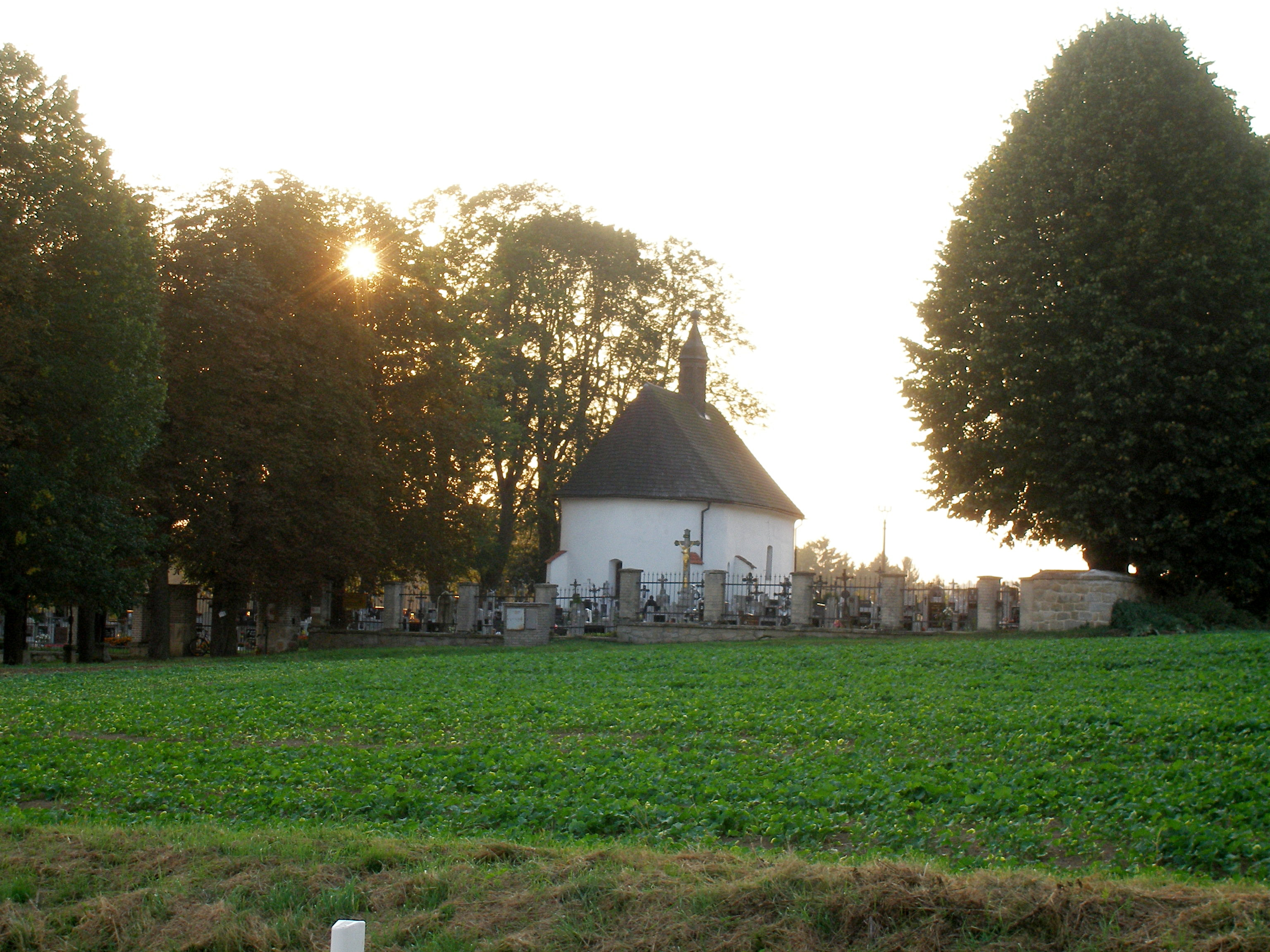 Strmilov - the cemetery with the Saint Andew church